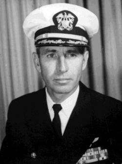 George Stephen Morrison (as a Commander or Captain)